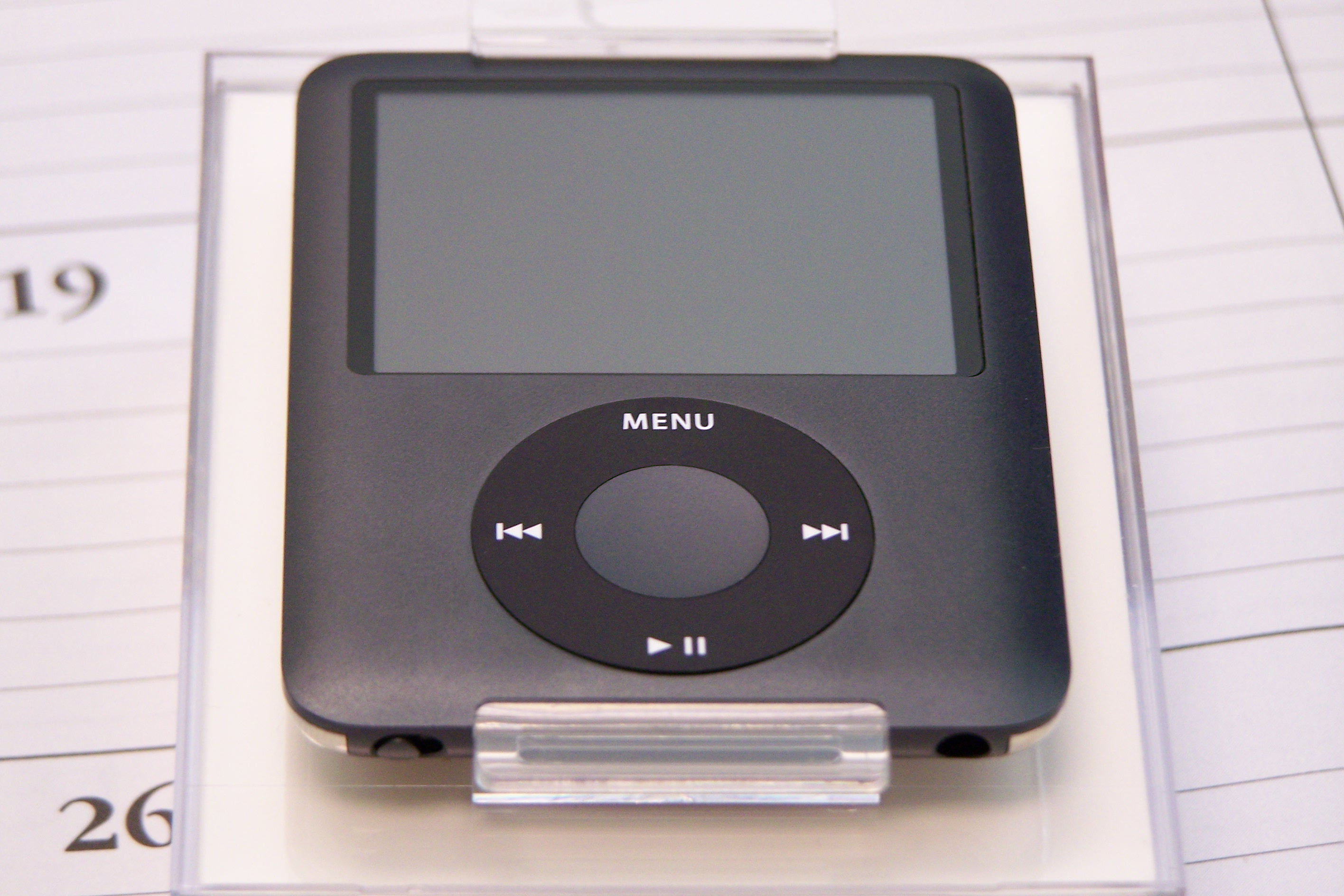 Apple iPod Nano, 3rd Generation, 8GB black model.